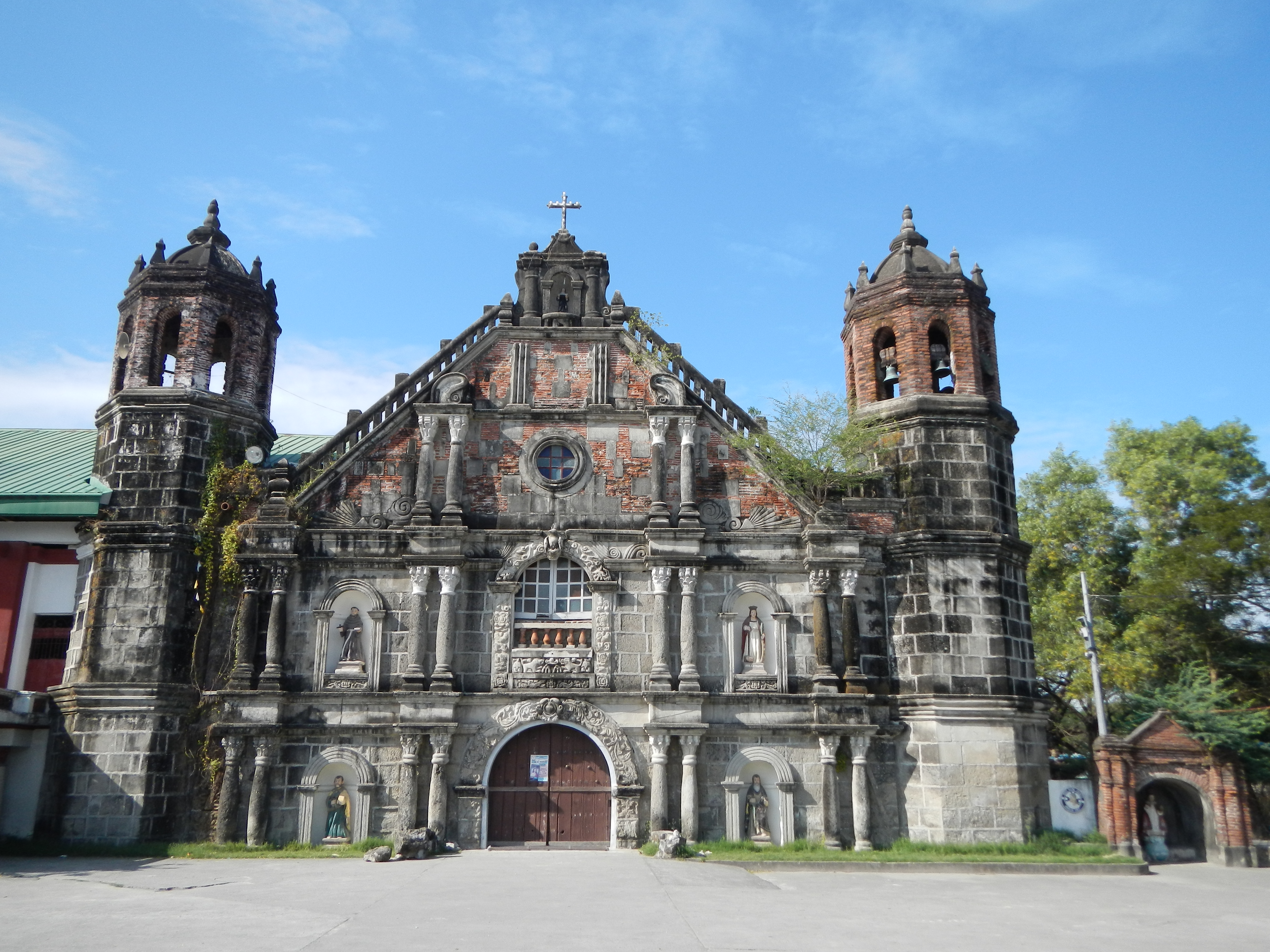 [1]1721 Santa Monica Parish Church, commonly known as the Minalin Church declared a National Cultural Treasure by the National Museum of the Philippines and the National Commission for Culture and the Arts (Philippines) . [2]Minalin, Pampanga (San Nicolas)